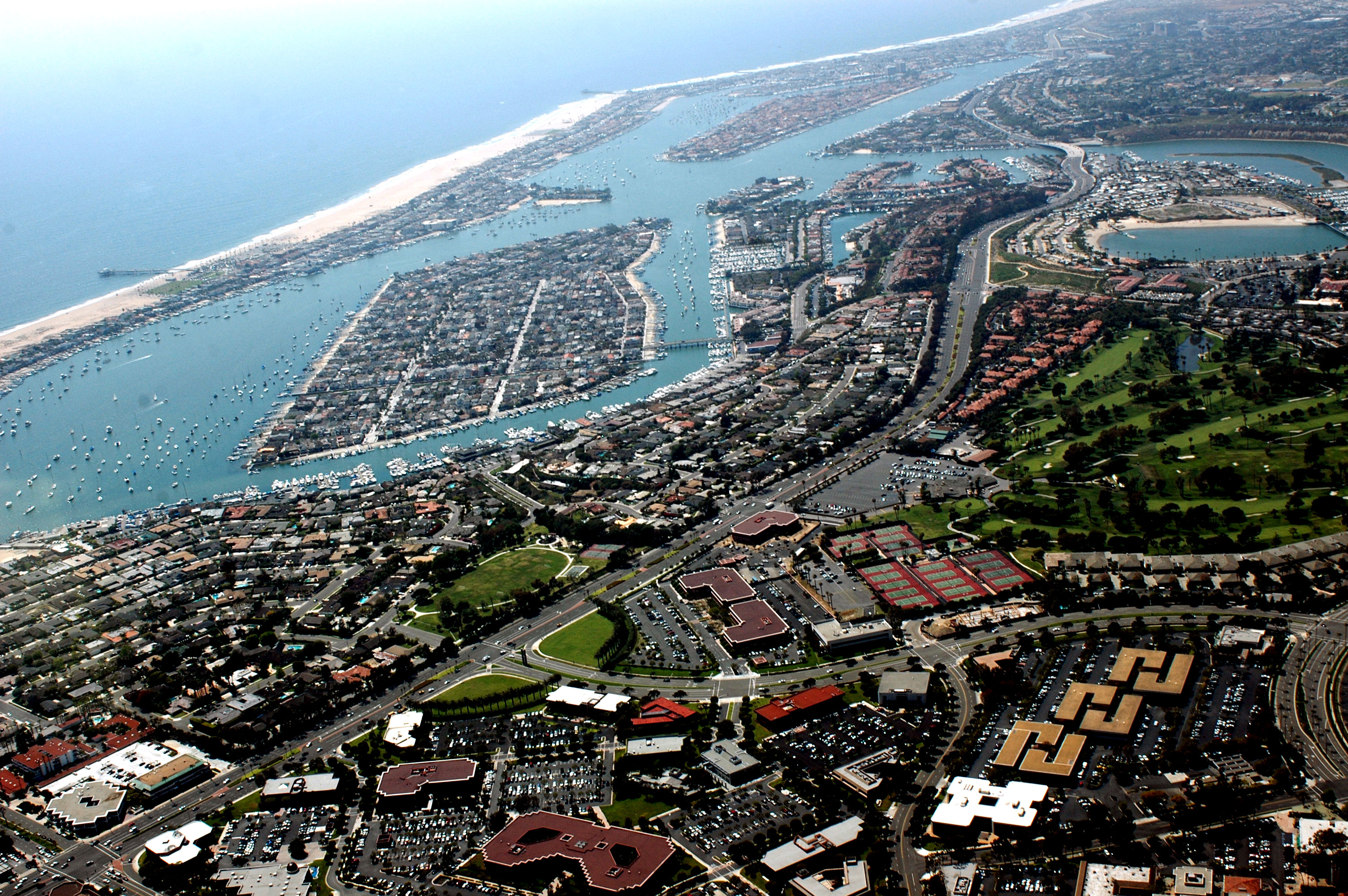 Newport Beach California, from 2200 feet as departing from John Wayne airport